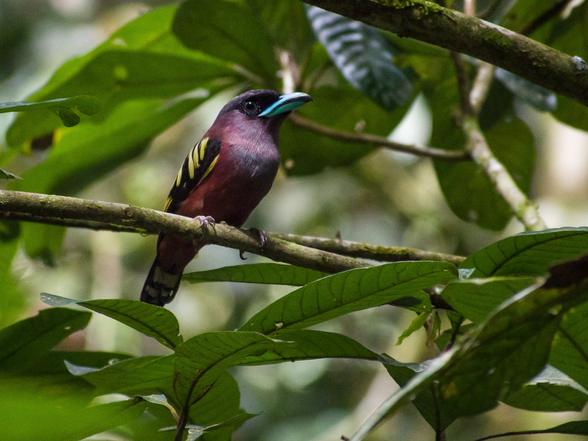 Banded Broadbill